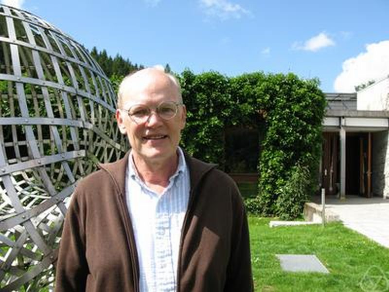 Jerold Marsden, Oberwolfach 2008